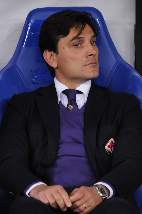 Vincenzo Montella as a coach of ACF Fiorentina in an away match against Dynamo Kiev in UEFA Europa League on 16 April 2015